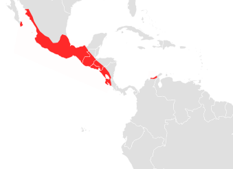 Distribution of Balantiopteryx plicata